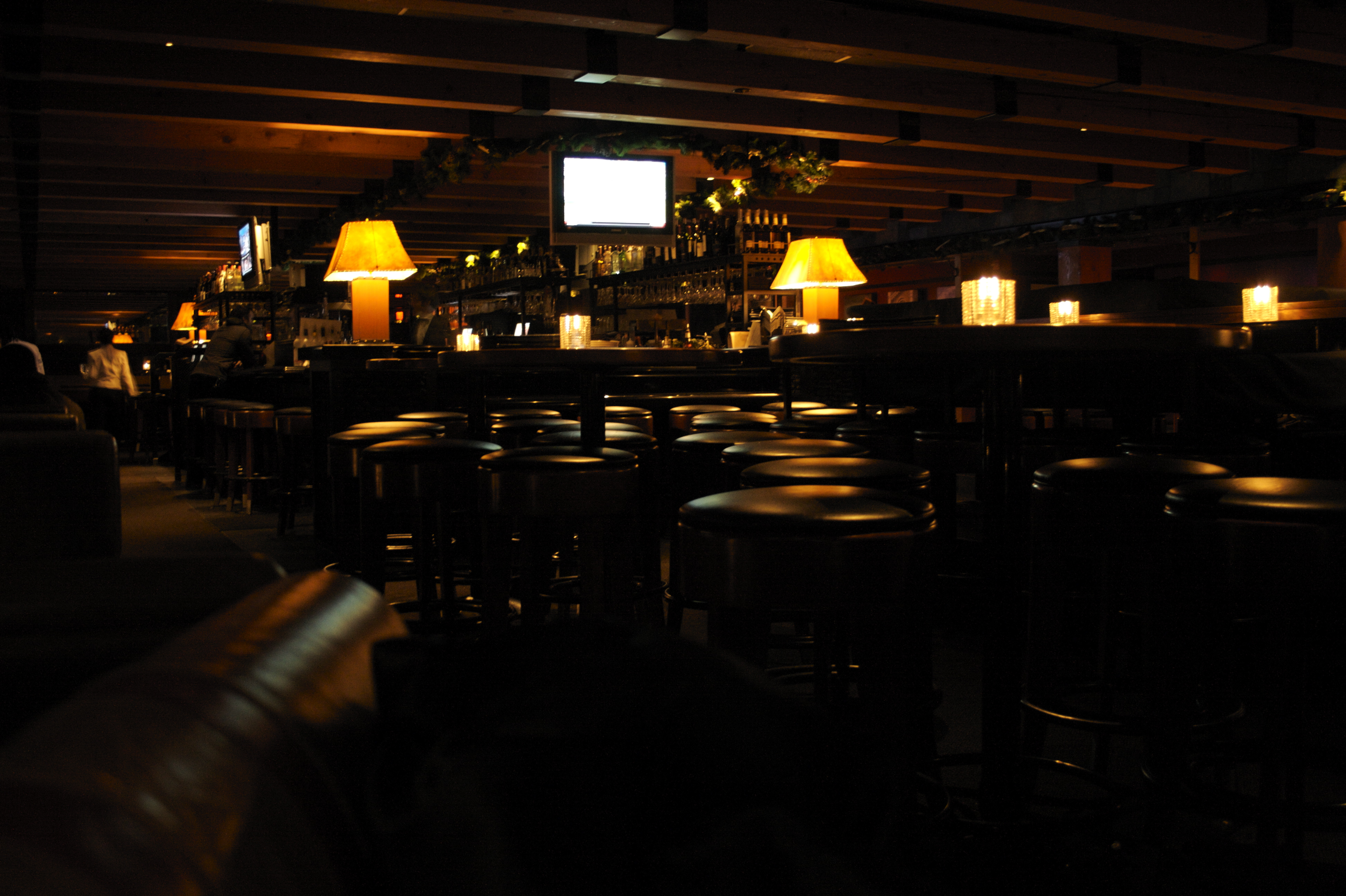 A photograph of inside Portland City Grill, a restaurant atop the 30th floor of the U.S. Bancorp Tower in Portland, Oregon.